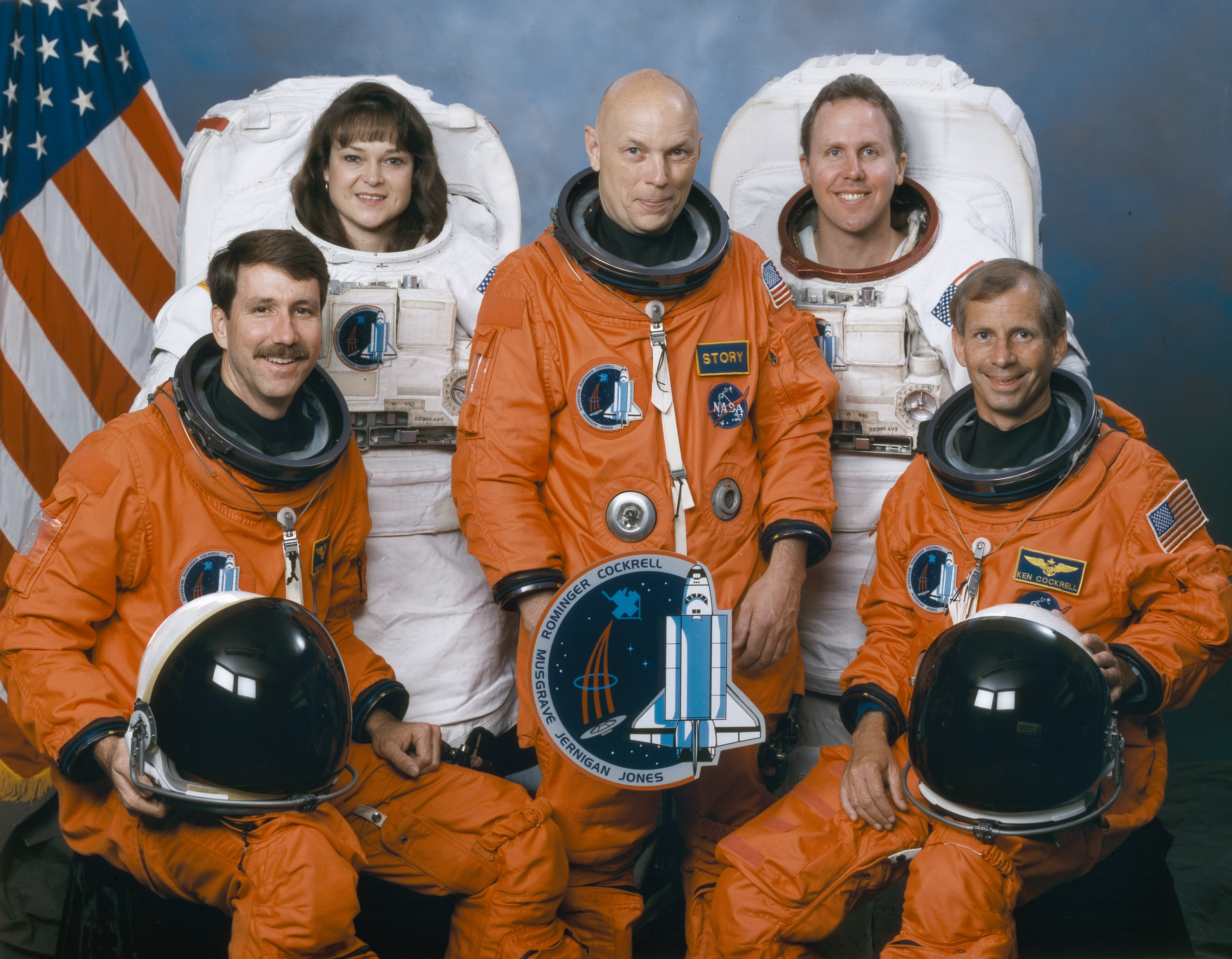 The crew assigned to the STS-80 mission included (seated left to right) Kent V. Rominger, pilot; and Kenneth D. Cockrell, commander. Standing (left to right) are mission specialists Tamara E. Jernigan, F. Story Musgrave, and Thomas D. Jones. Launched aboard the Space Shuttle Columbia on November 19, 1996 at 2:55:47 pm (EST), the STS-80 mission marked the final flight of 1996. The crew successfully deployed and operated the Orbiting and Retrievable Far and Extreme Ultraviolet Spectrometer-Shuttle Pallet Satellite II (ORFEUS-SPAS II), and deployed and retrieved the Wake Shield Facility-3 (WSF-3).